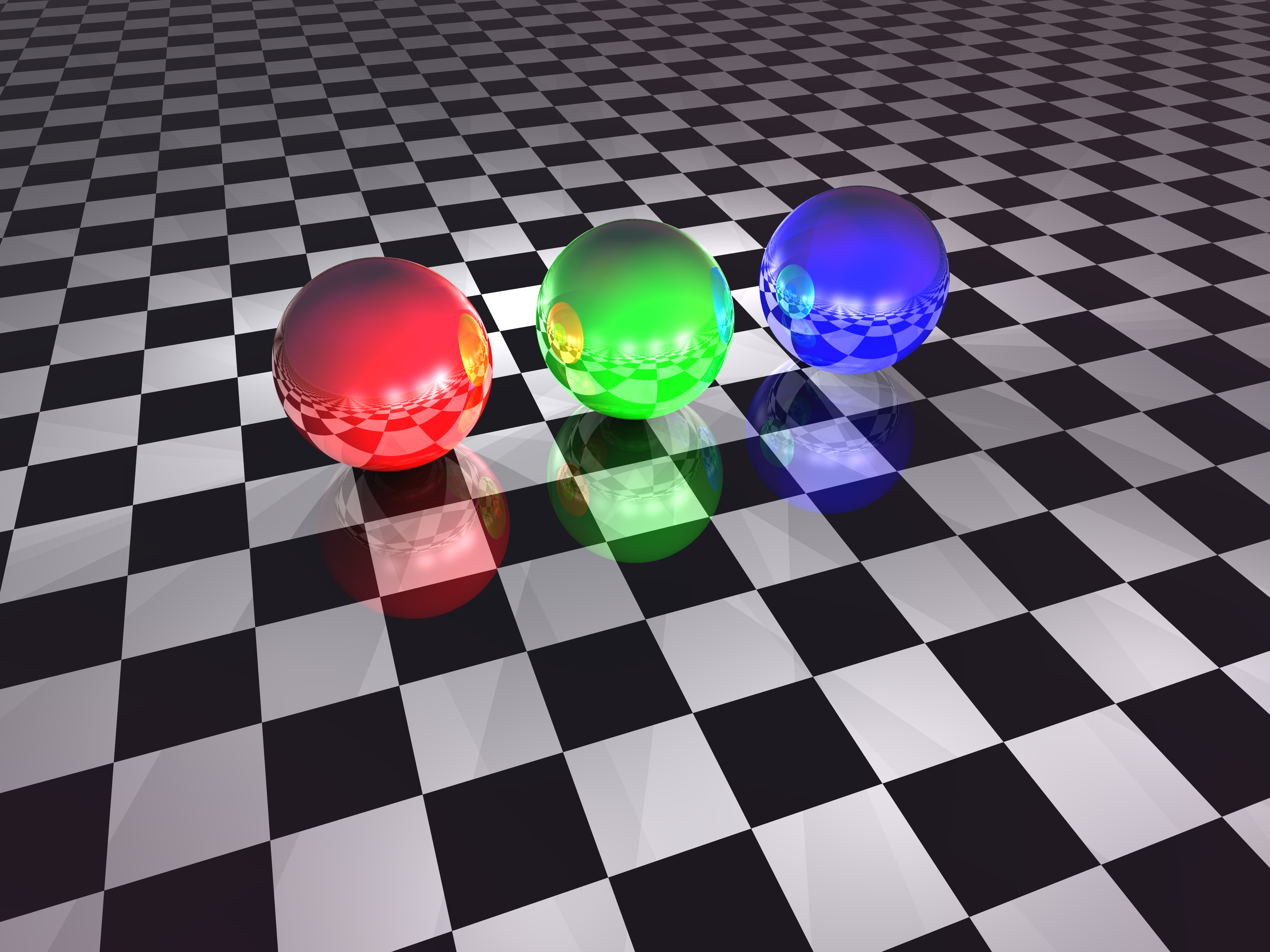 Summary Created this raytrace as a bright, more reflective replacement for Image:Raytracing_reflection.png. At a different angle. Team Vaniyamkulam Source POV-Ray: #include "colors.inc" #include "textures.inc" #max_trace_level 10 camera { location look_at rotate } fog { color 0.5 distance 500 } sky_sphere { pigment { Apocalypse } } plane { y, 0 texture { pigment { checker color rgb 0 color rgb 1 scale 4 } finish { reflection 0.4 } } } light_source { color rgb 0.4 } light_source { color rgb 0.8 } light_source { color rgb 0.8 } light_source { color rgb 0.8 } light_source { color rgb 0.4 } light_source { color rgb 0.4 } light_source { color rgb 0.8 } light_source { color rgb 0.4 } light_source { color rgb 0.8 } light_source { color rgb 0.4 } light_source { color rgb 0.8 } light_source { color rgb 0.4 } #declare roundSphere = sphere { , 4 texture { pigment { color } finish { phong 1 reflection 1 } } } object { roundSphere texture { pigment { color } finish { phong 1 reflection 1 } } translate } object { roundSphere texture { pigment { color } finish { phong 1 reflection 1 } } translate } object { roundSphere texture { pigment { color } finish { phong 1 reflection 1 } } translate }